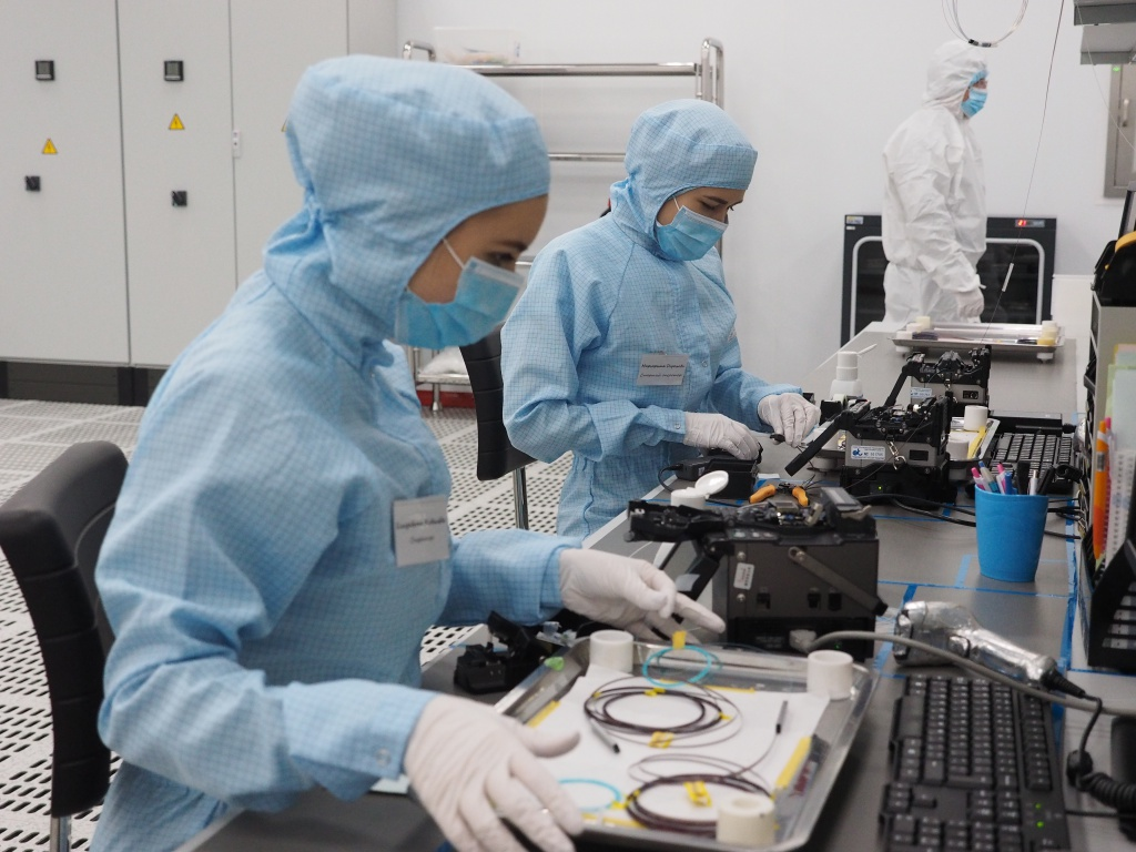 Москва, 2015 год, Технополис «Москва